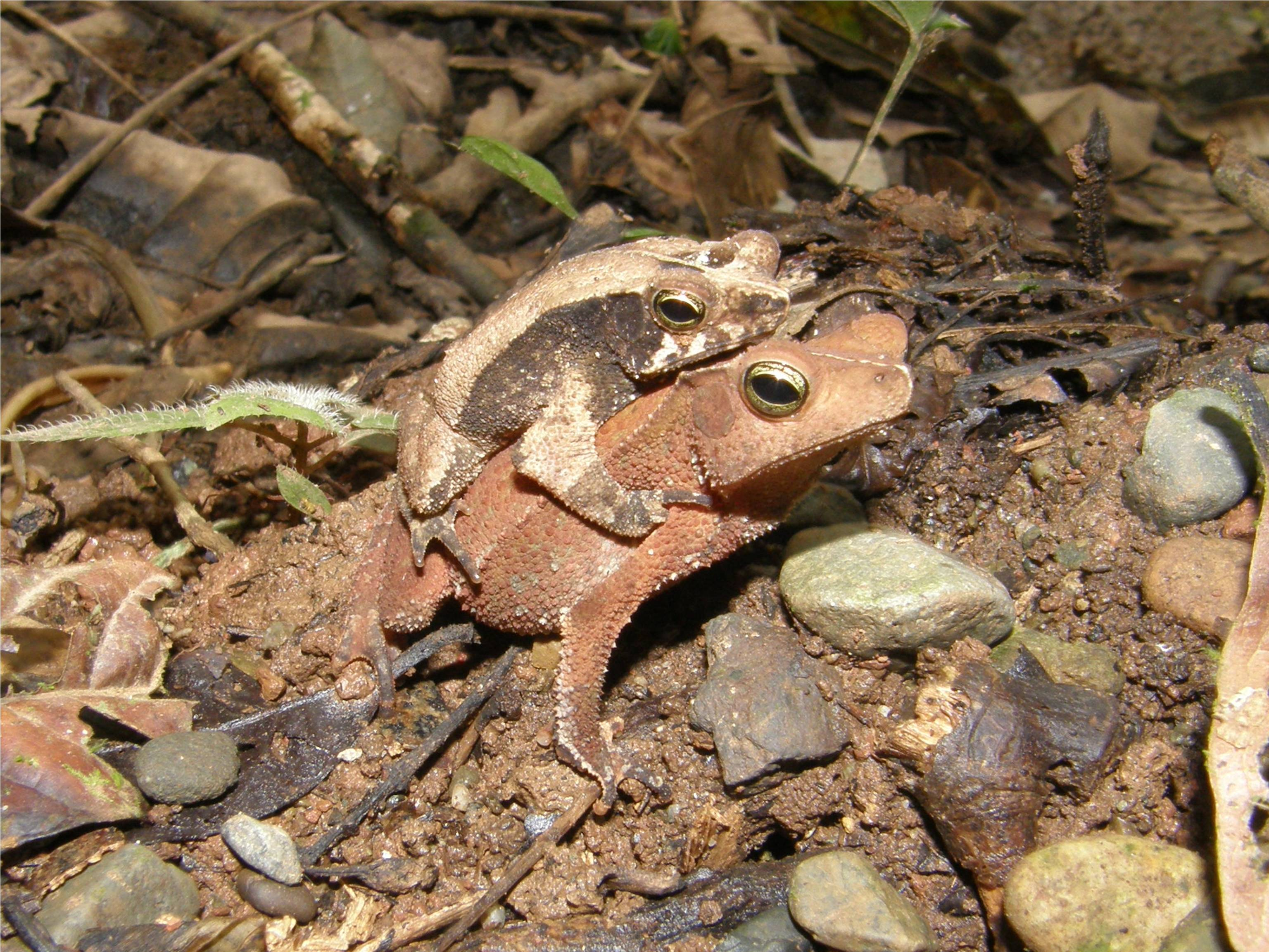 Bufo typhonius